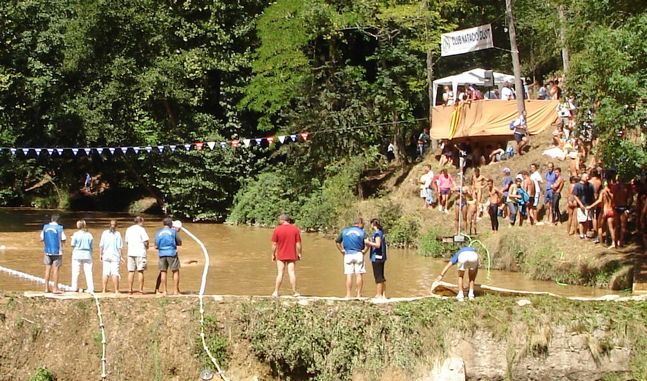 Object: Swim competition on river Fluvia at Olot (Catalonia/Spain) at 27.08.2006 Author: Wamito